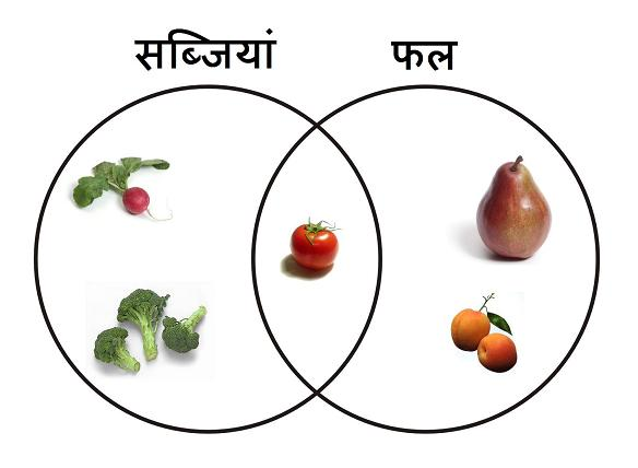 Euler diagram representing the relationship between (botanical) fruits and vegetables. Botanical fruits that are not vegetables are culinary fruits.